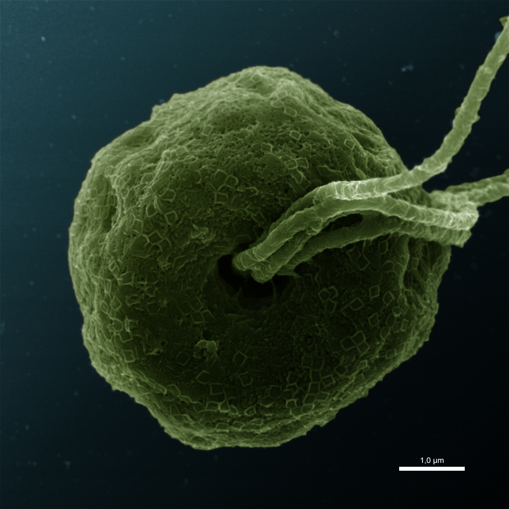 Flagellar pit of Pyramimonas sp. / from Nigaku-Ike of University of Tsukuba, Tsukuba, Ibaraki Pref., Japan / SEM:JEOL JSM-6330F / scale bar = 1.0μm